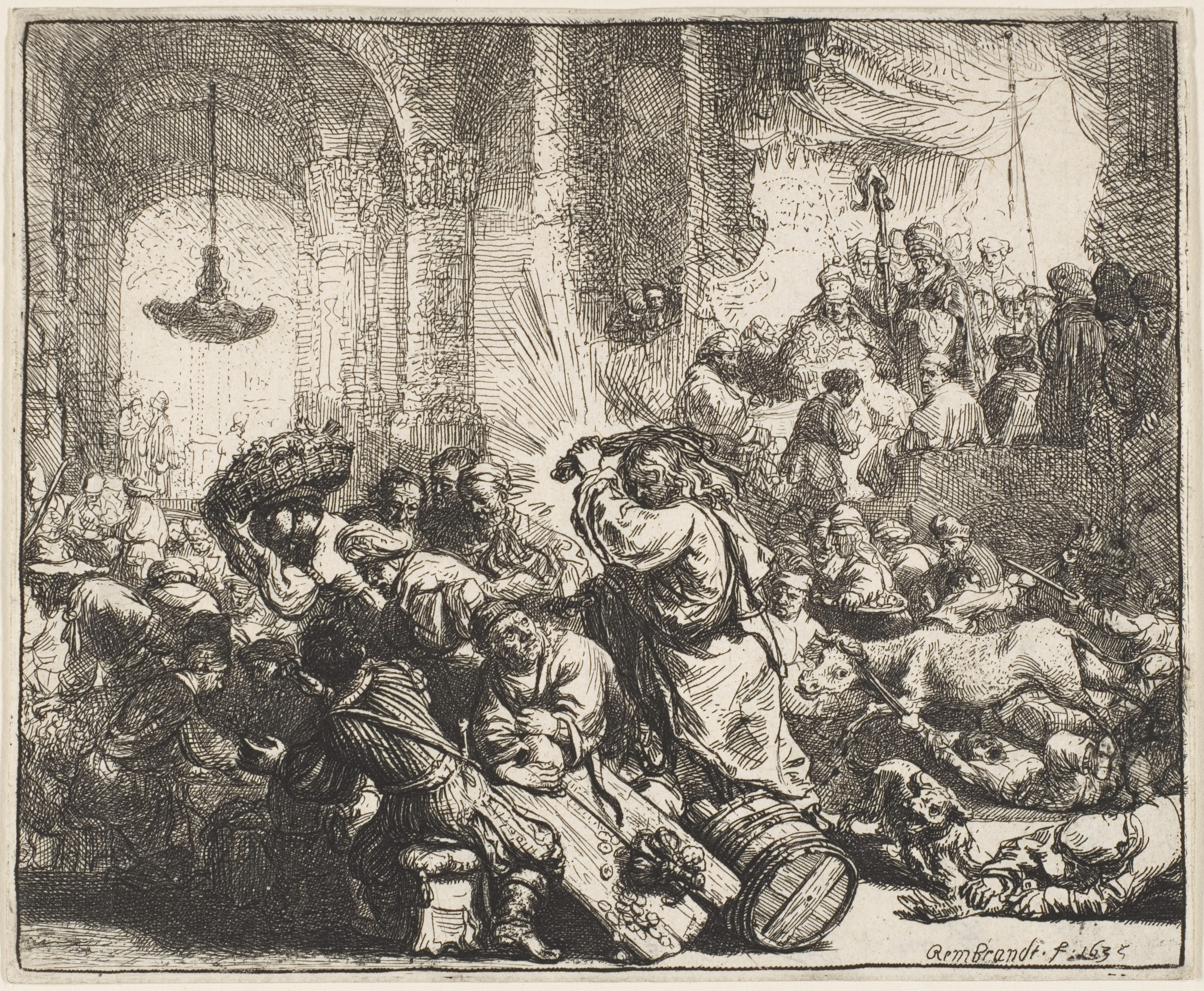 Print; Prints